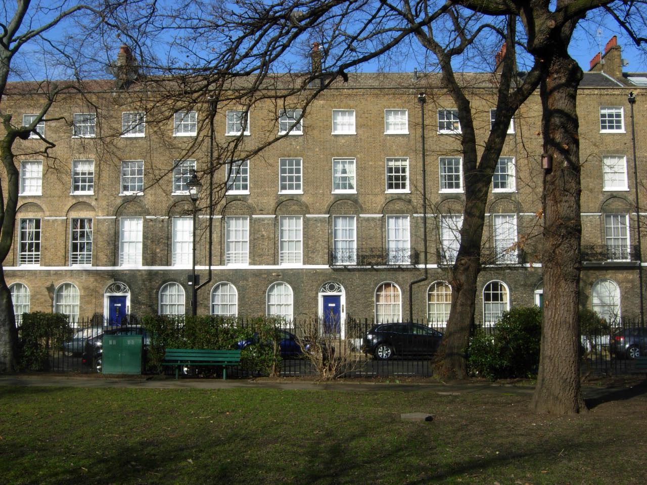 Myddelton Square, Islington. Myddelton Square was laid out between 1824 and 1827 and named after Sir Hugh Myddelton, who built the New River in the early 17th century. All is not quite what it seems however; several of the houses on the north side of the square - broadly those in the left half of this picture - were destroyed by enemy action in the Second World War. What we see now are replicas built in 1948, although it is anything but obvious were it not for a small plaque explaining the fate of nos 43-53.